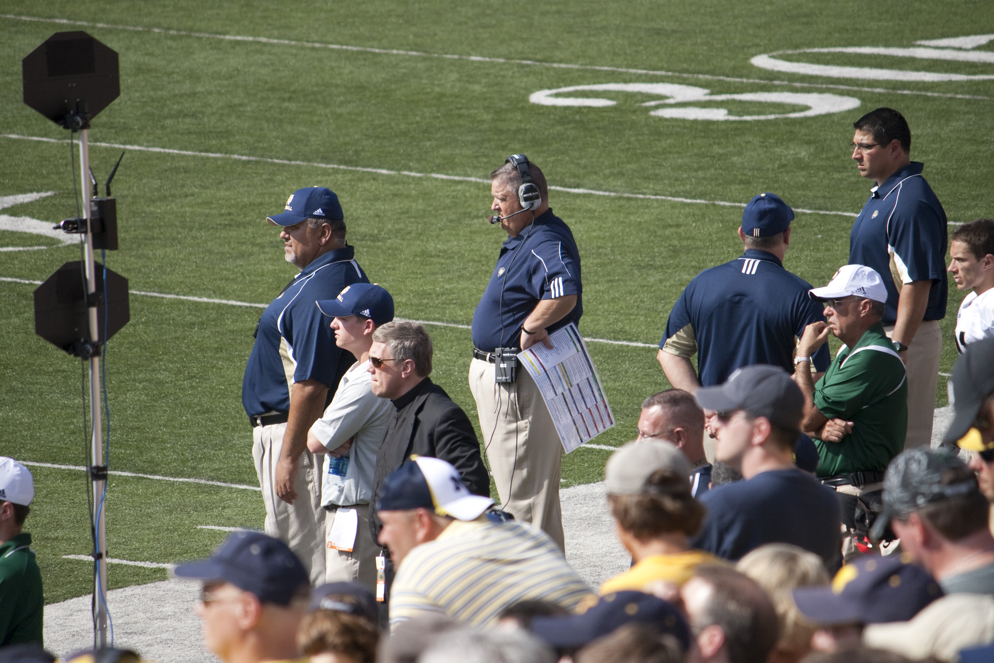 Charlie Weis